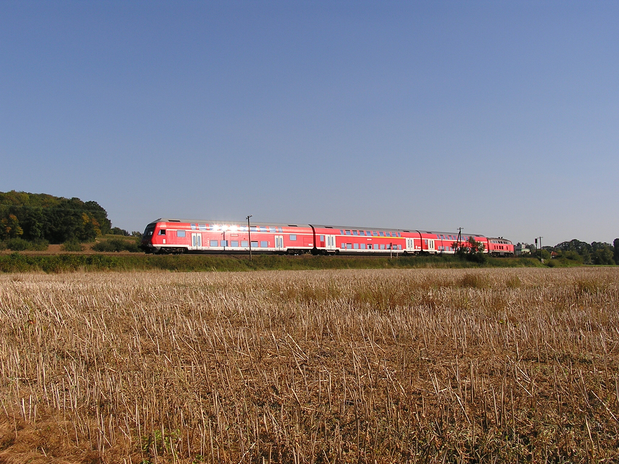 Double deckers, pushed by a Class 218, on the Niddertalbahn near Schöneck